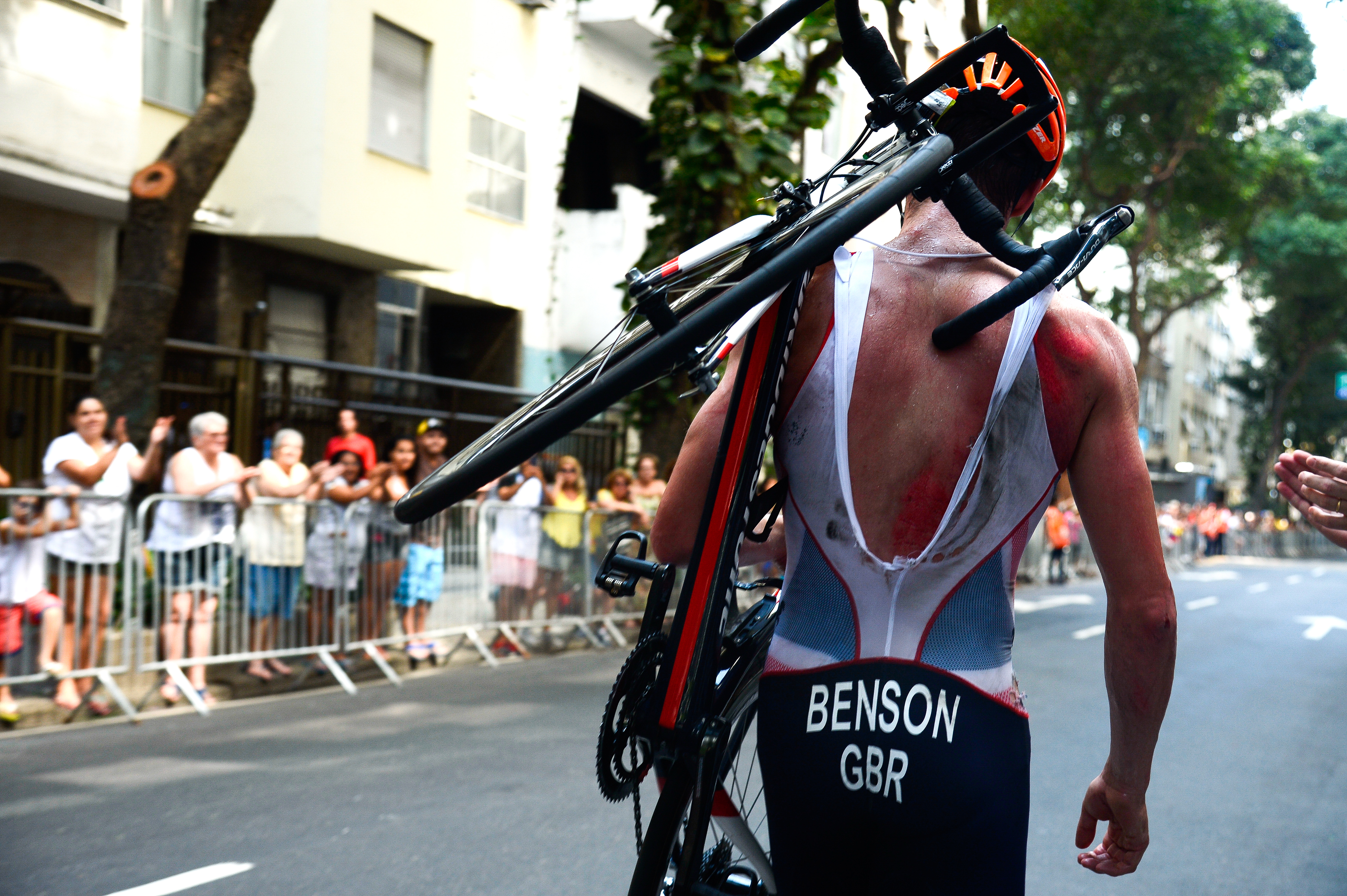 Rio de Janeiro - Competição de triatlo masculino nas ruas de Copacabana. ( Tânia Rêgo/Agência Brasil)